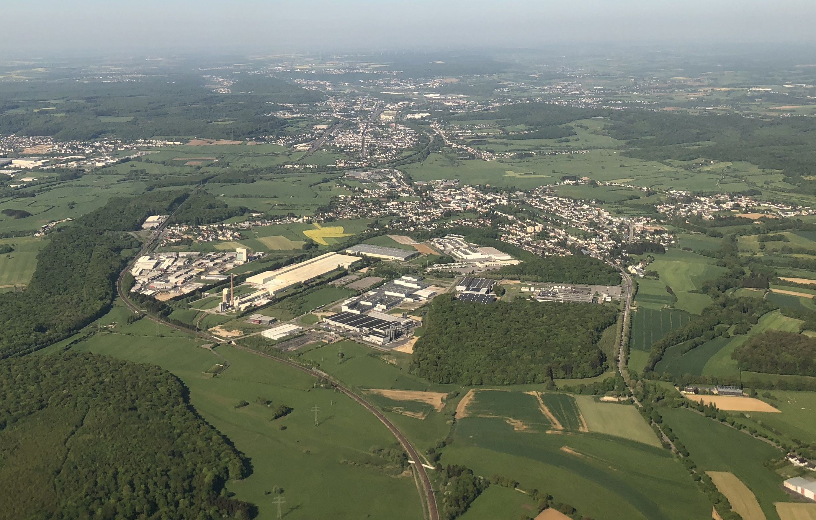 Aerial View of Bascharage (Nidderkäerjeng) in May 2018.